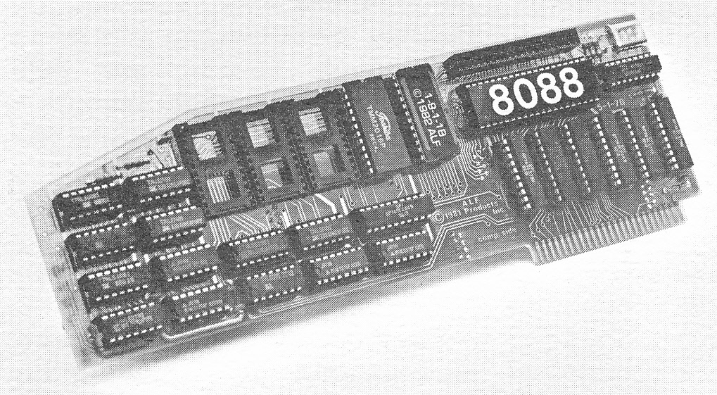 ALF Product's AD8088 Processor Card circuit card, front side.